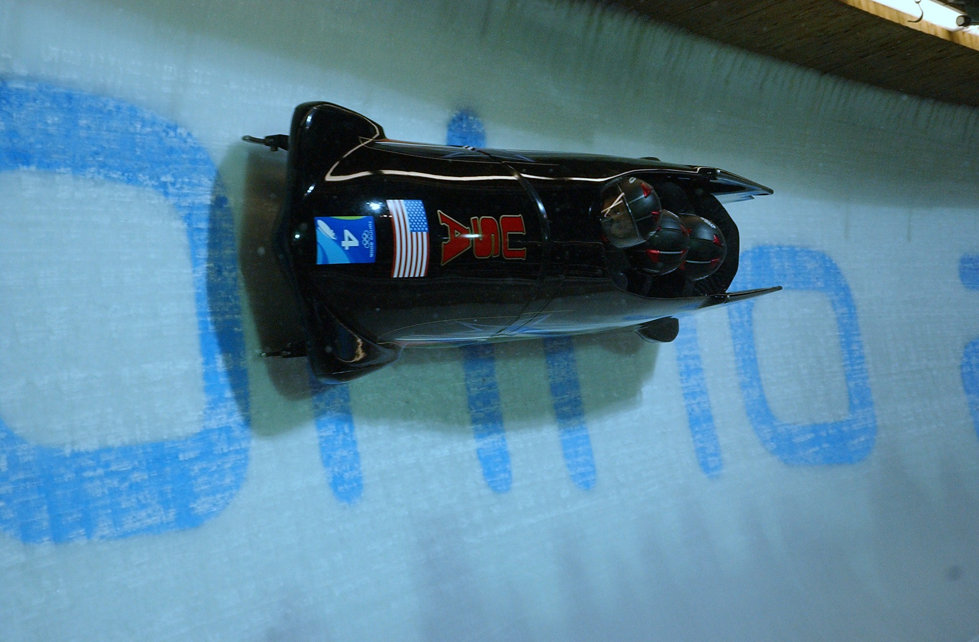 Olympic 4-man usa